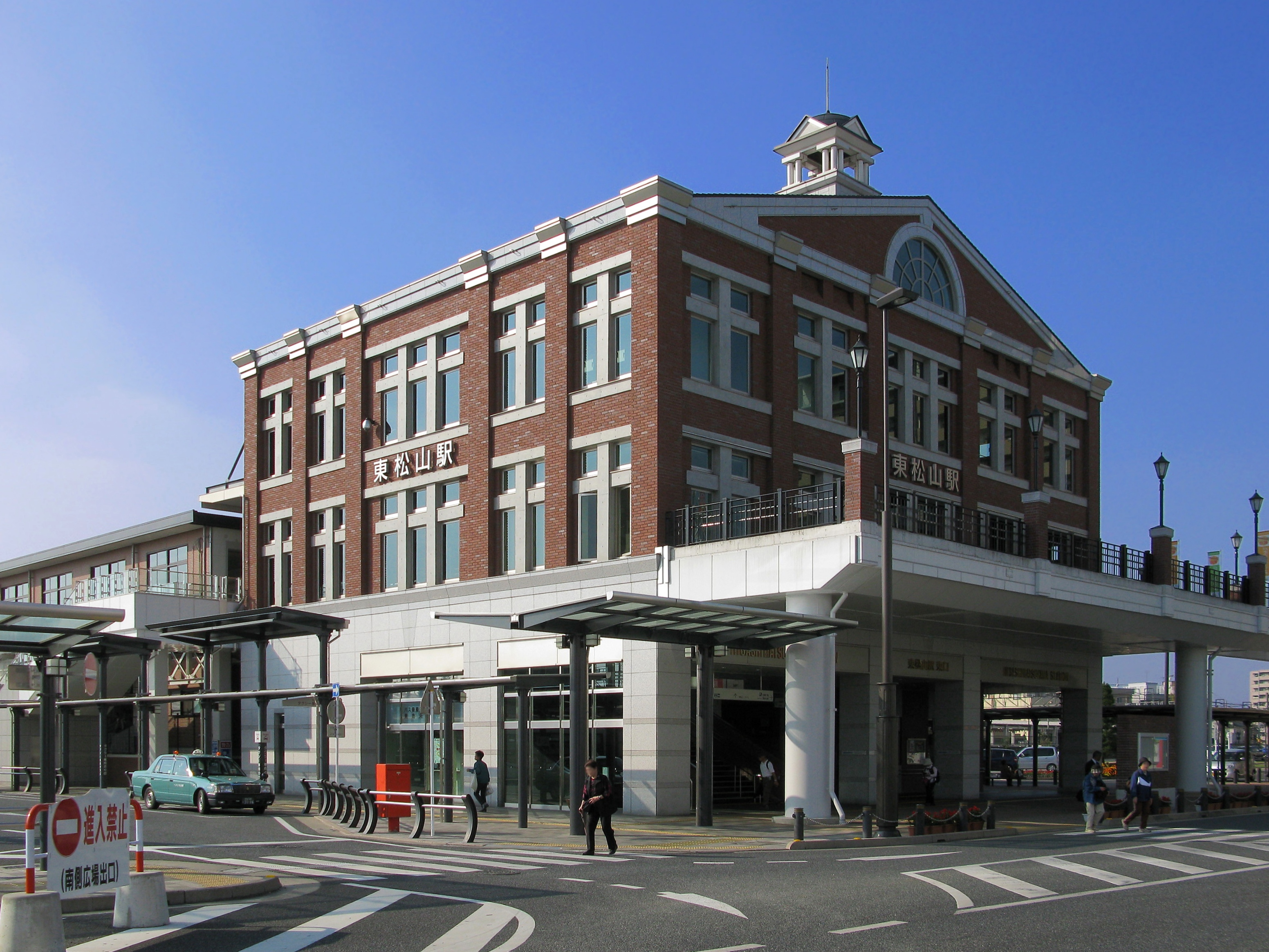 East entrance of Higashi-Matsuyama Station on the Tobu Tojo Line in Saitama Prefecture, Japan